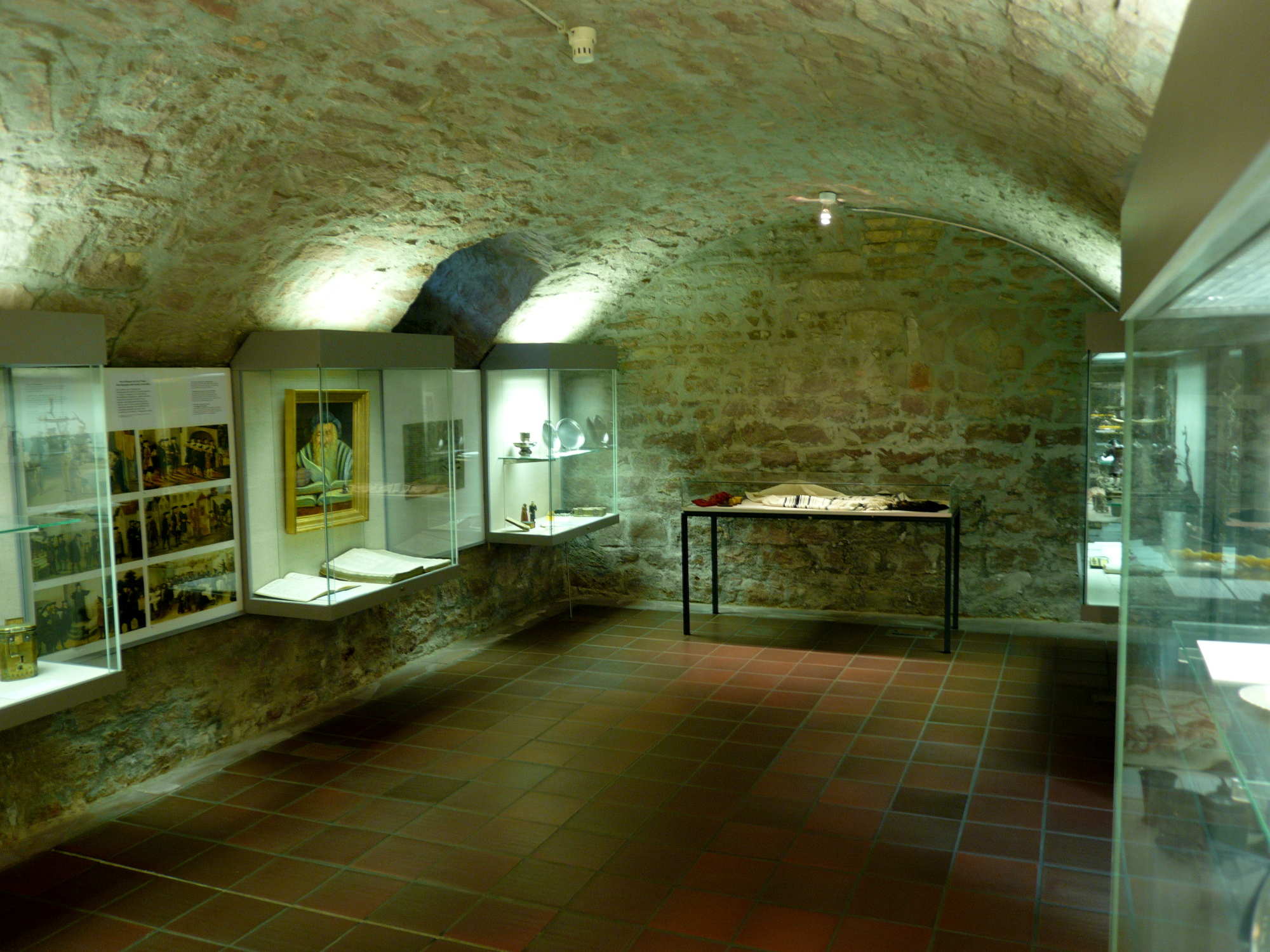 The Raschihaus, which is a Jewish museum and municipial archive in Worms, Germany